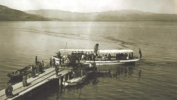 Al-Sharia ship, Sea of Galilee